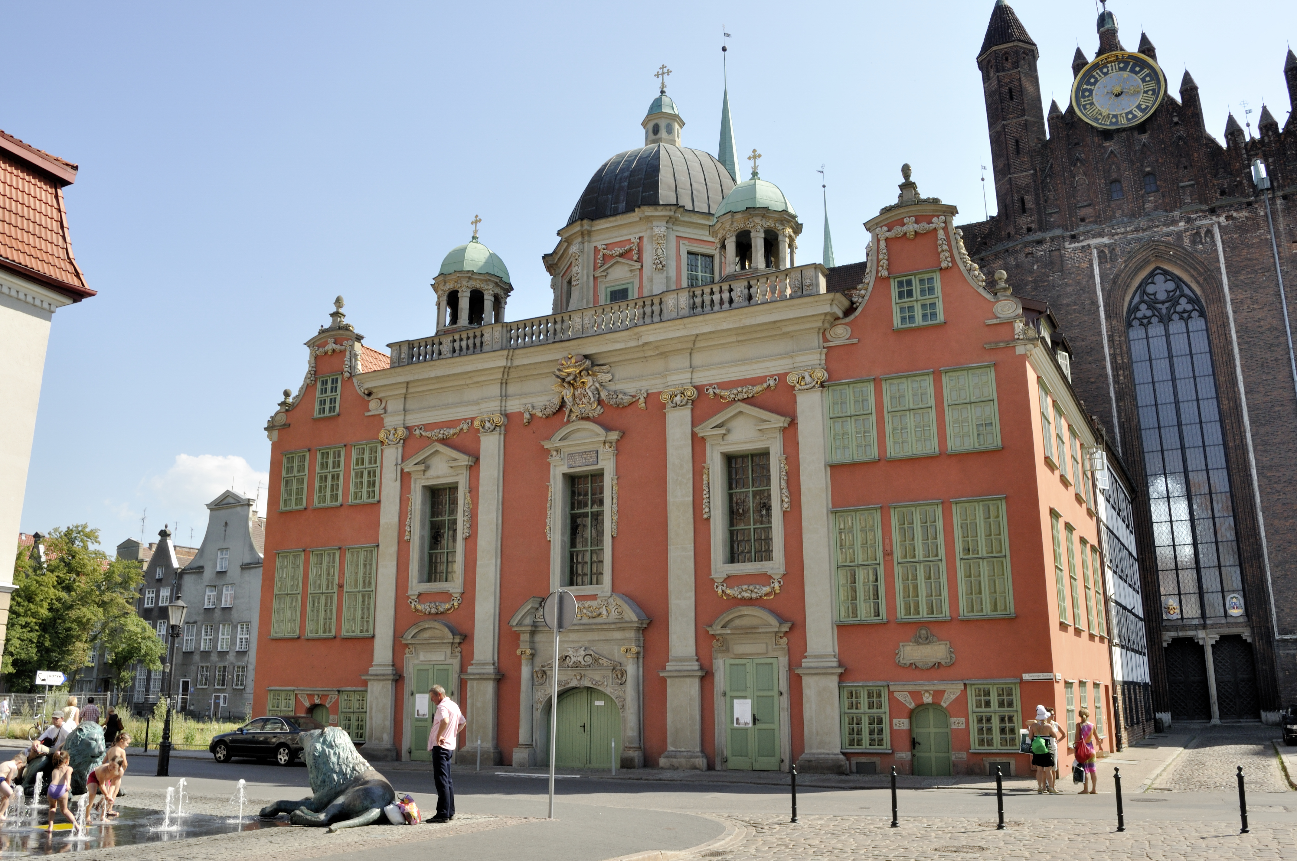 Picture taken in Gdańsk after Wikimania 2010 conference.